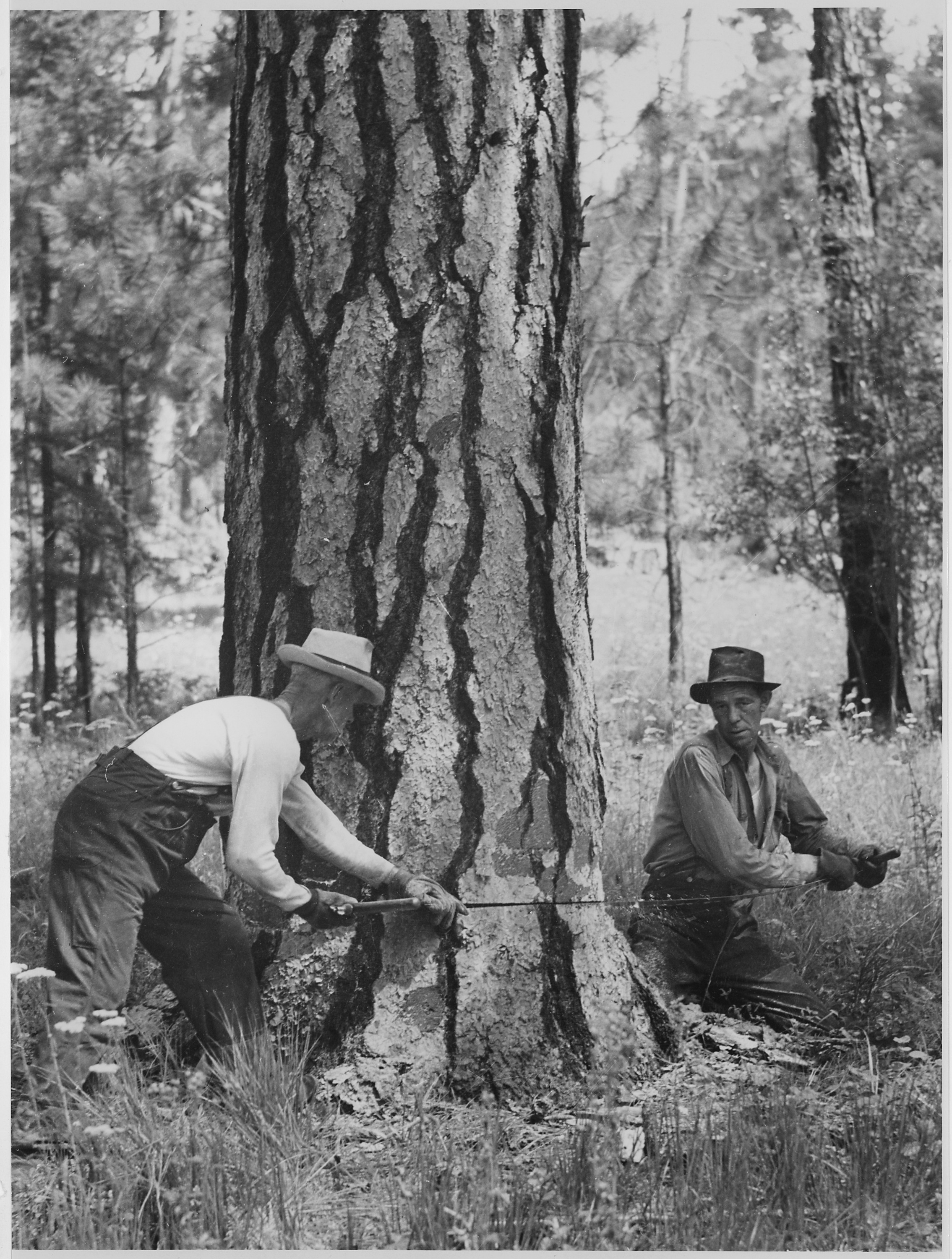 Scope and content: Photographic reports compiled by Harold Weaver illustrate forest management on Indian Reservation forests of Washington and Oregon, mainly on Colville where Weaver was Forest supervisor before becoming Regional Forester in 1960. Ther are a few photos of California and Montana and reports of scientific field trips.